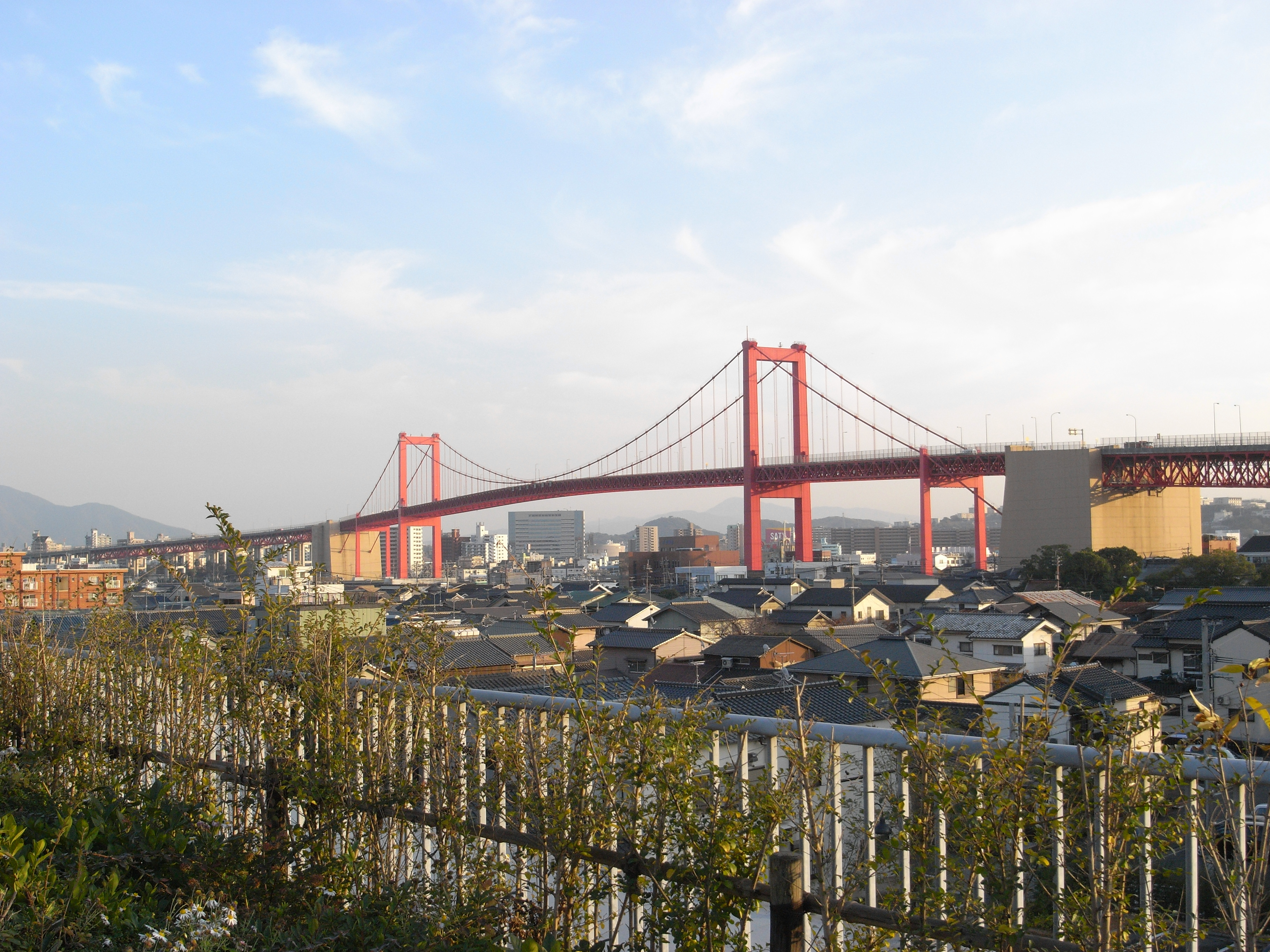 The Wakato Bridge is a suspension bridge in Kitakyūshū, Fukuoka Prefecture, Japan